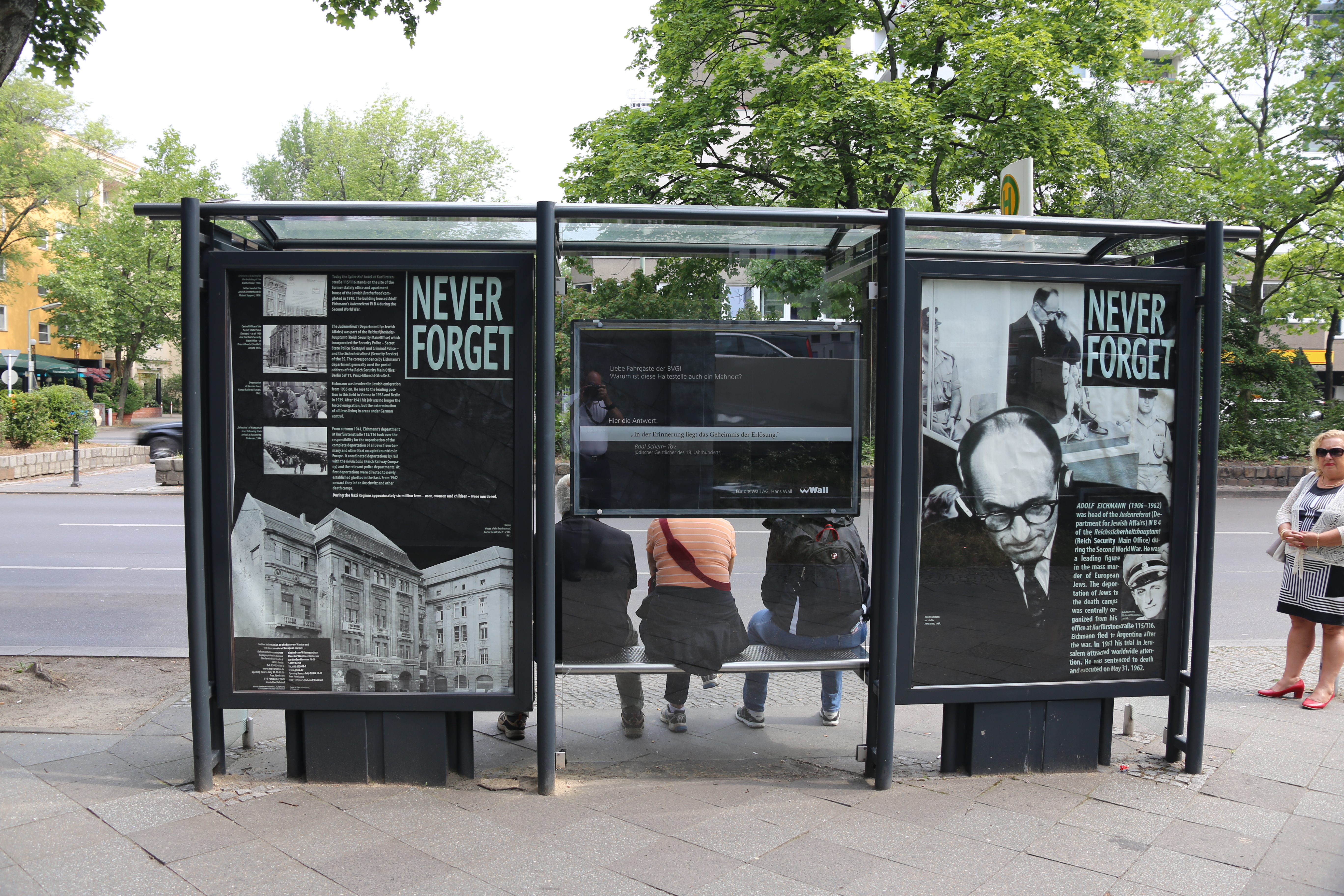 Memorial at bus stop to the site of Eichmann's former office, referat IV B4 (Office of Jewish Affairs) on Kurfurstenstrasse 115, now occupied by a hotel.